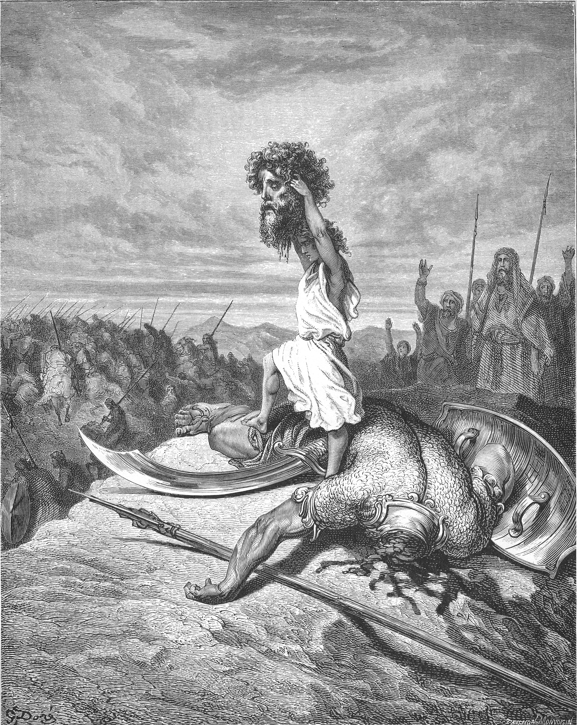 David Slays Goliath (1Sam. 17:49-51)